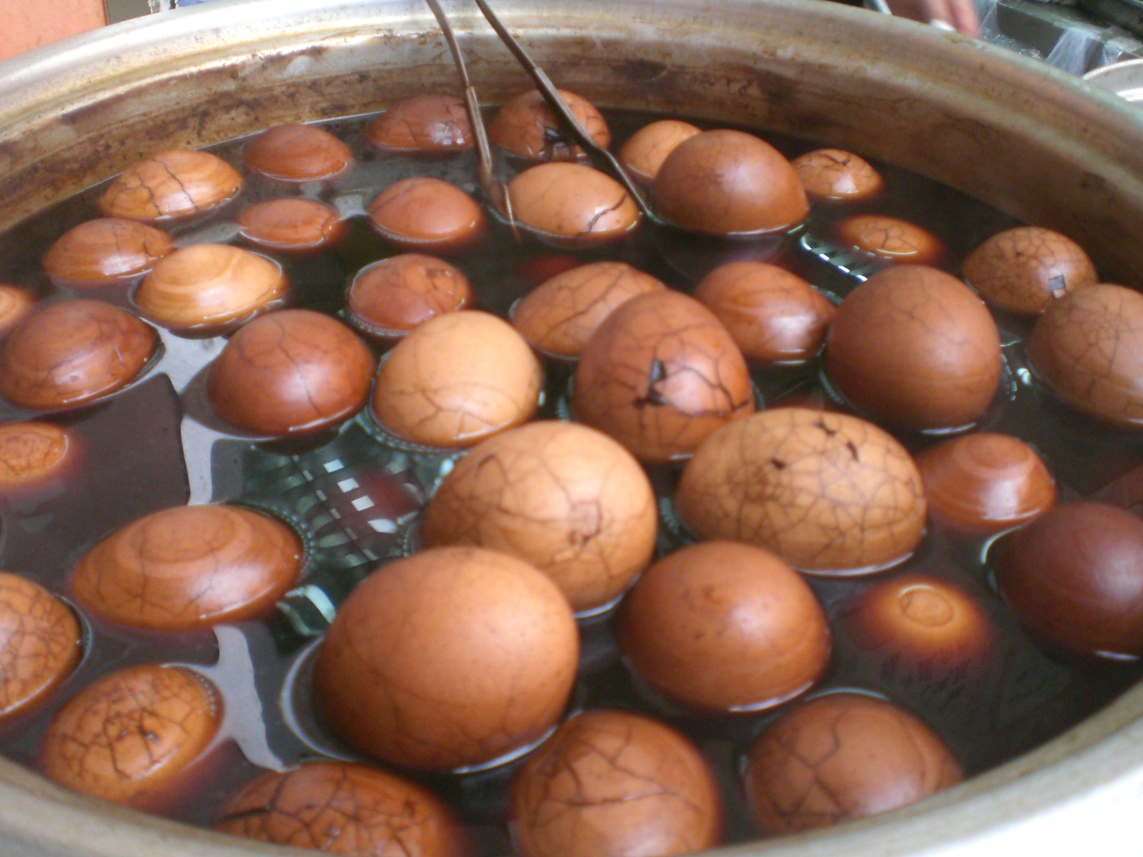 Tea eggs